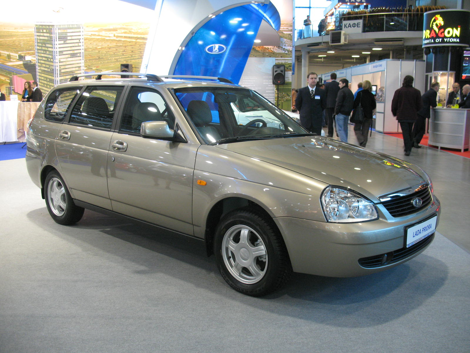 VAZ-2171 LADA Priora estate